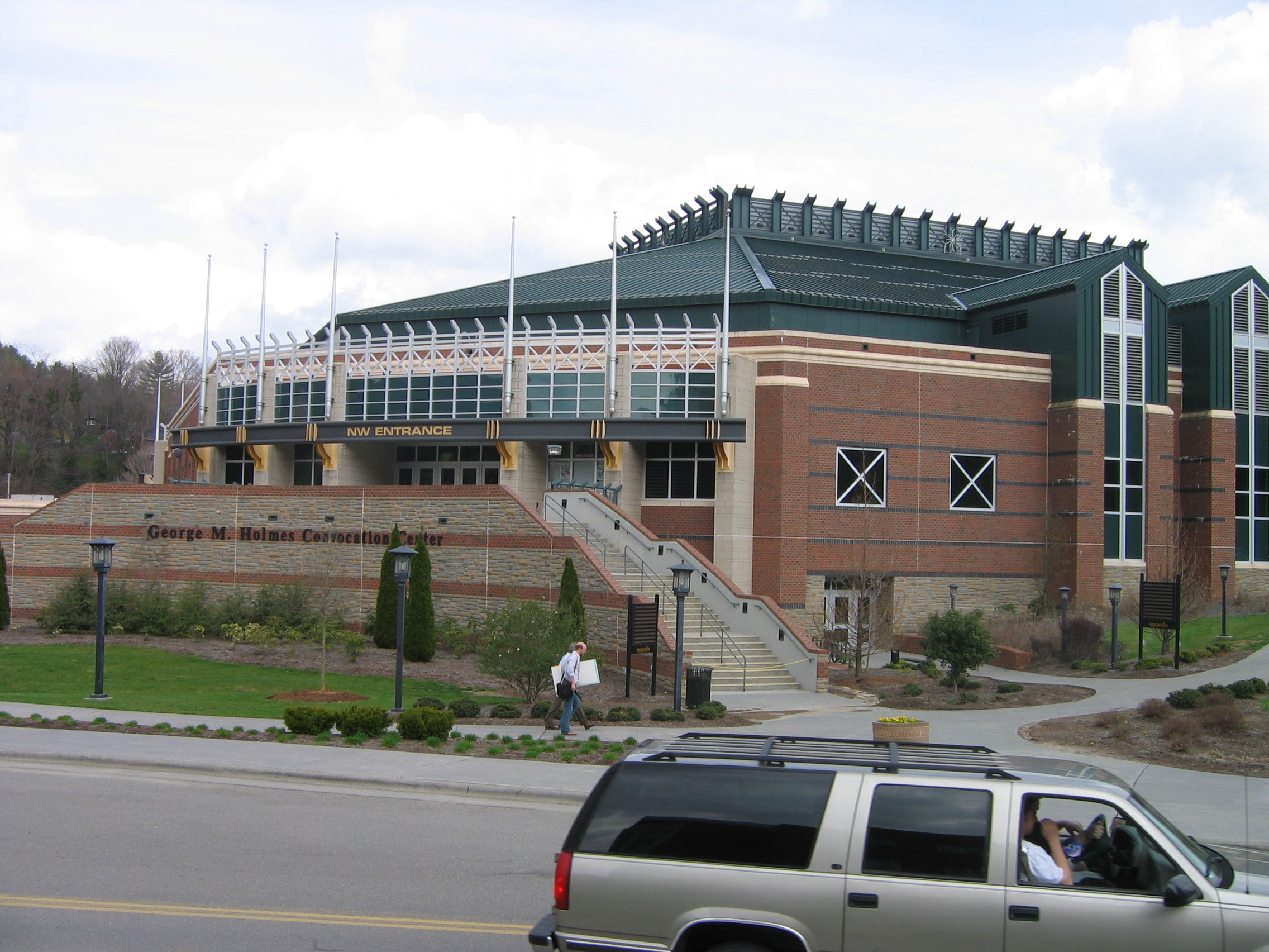 Football & Basketball Facilities Appalachian State Basketball Arena